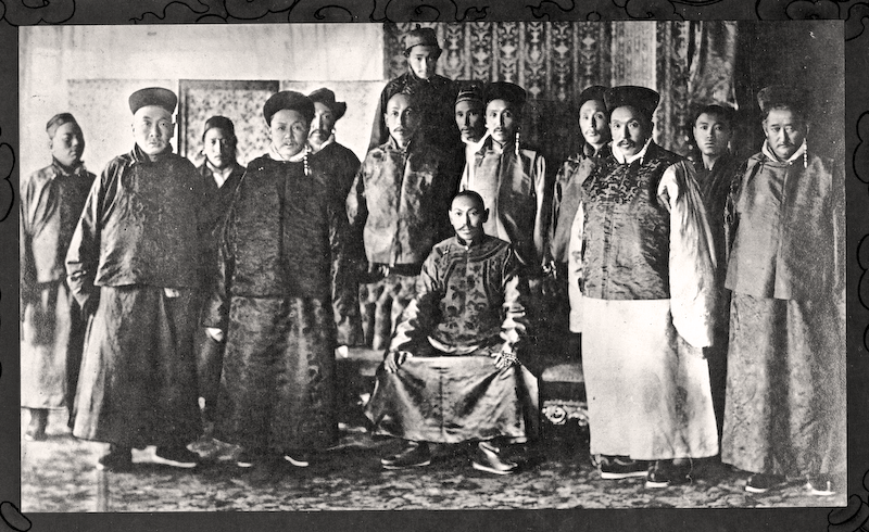 Portrait of the 13th Dalai Lama in Darjeeling. Detail from a group portrait, the Dalai Lama is sitting with hands on knees facing the camera. A note on the reverse dated 'Darjeeling May 18 1910' reads: 'My dear Barnett, I thought this photo of the Dalai Lama taken locally might interest you. Yours sincerely, [?]'.